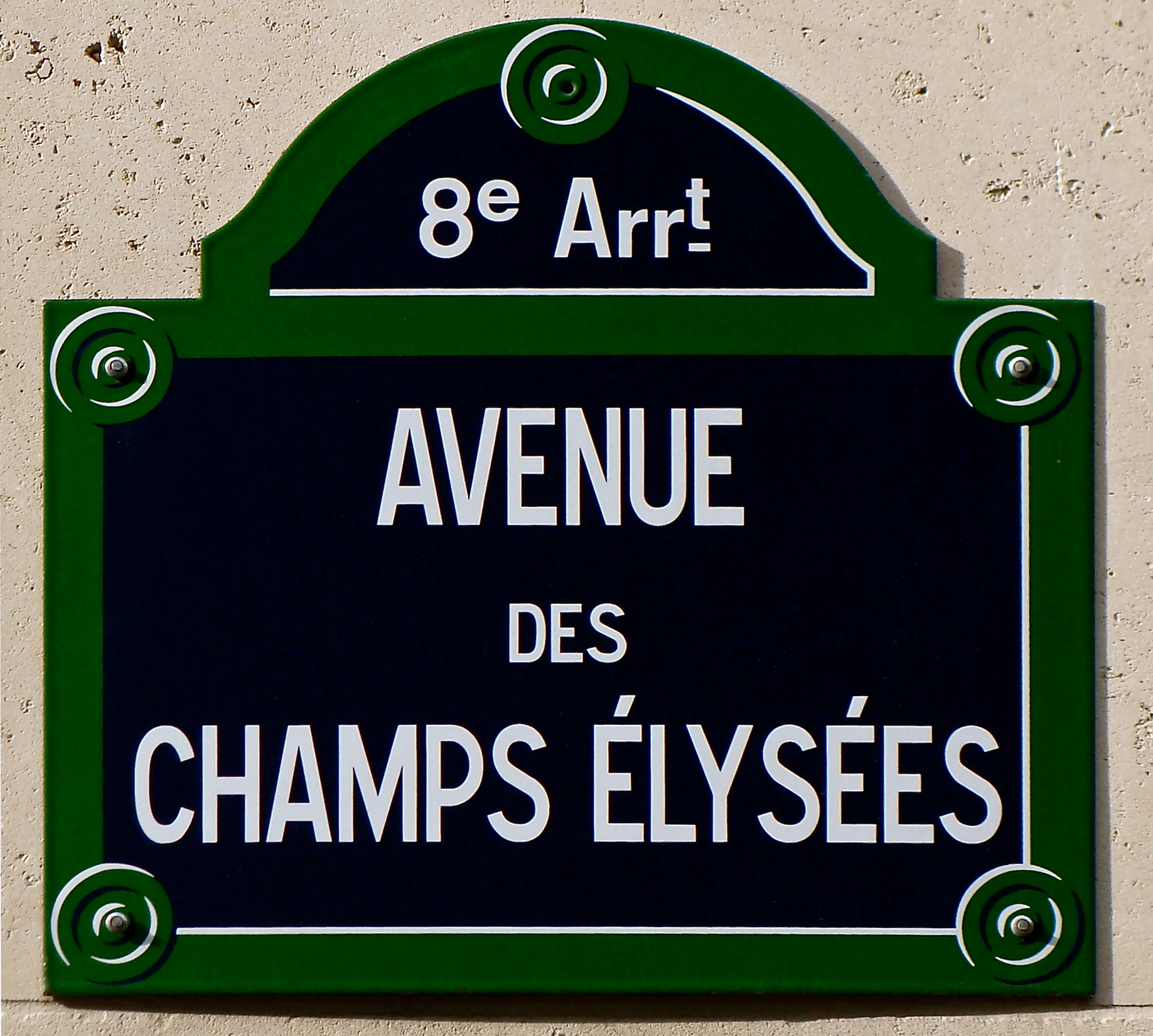 Street sign of the rue Champs-Élysées in the 8th arrondissement of Paris, France.